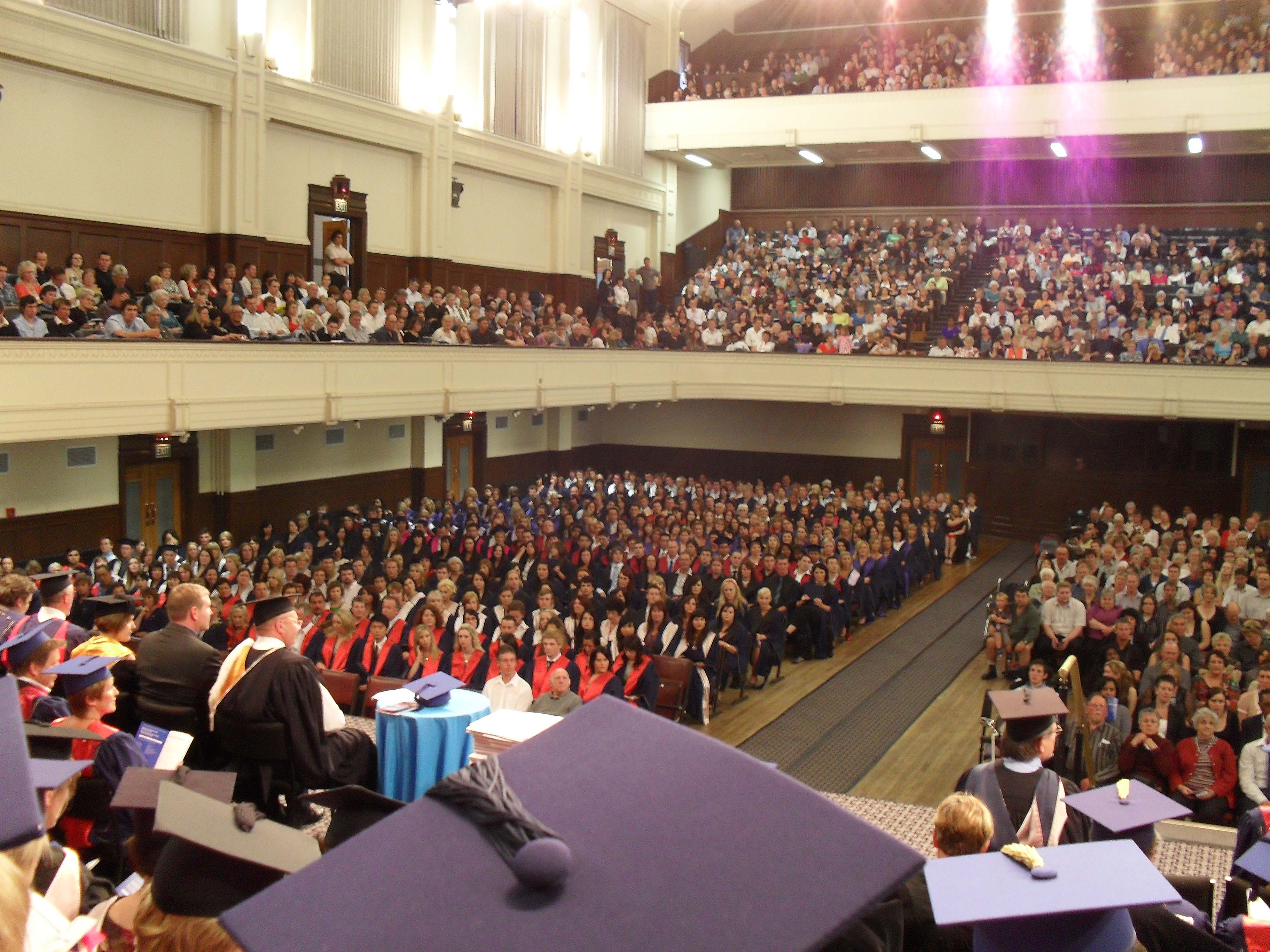 Dunedin town hall on graduation day